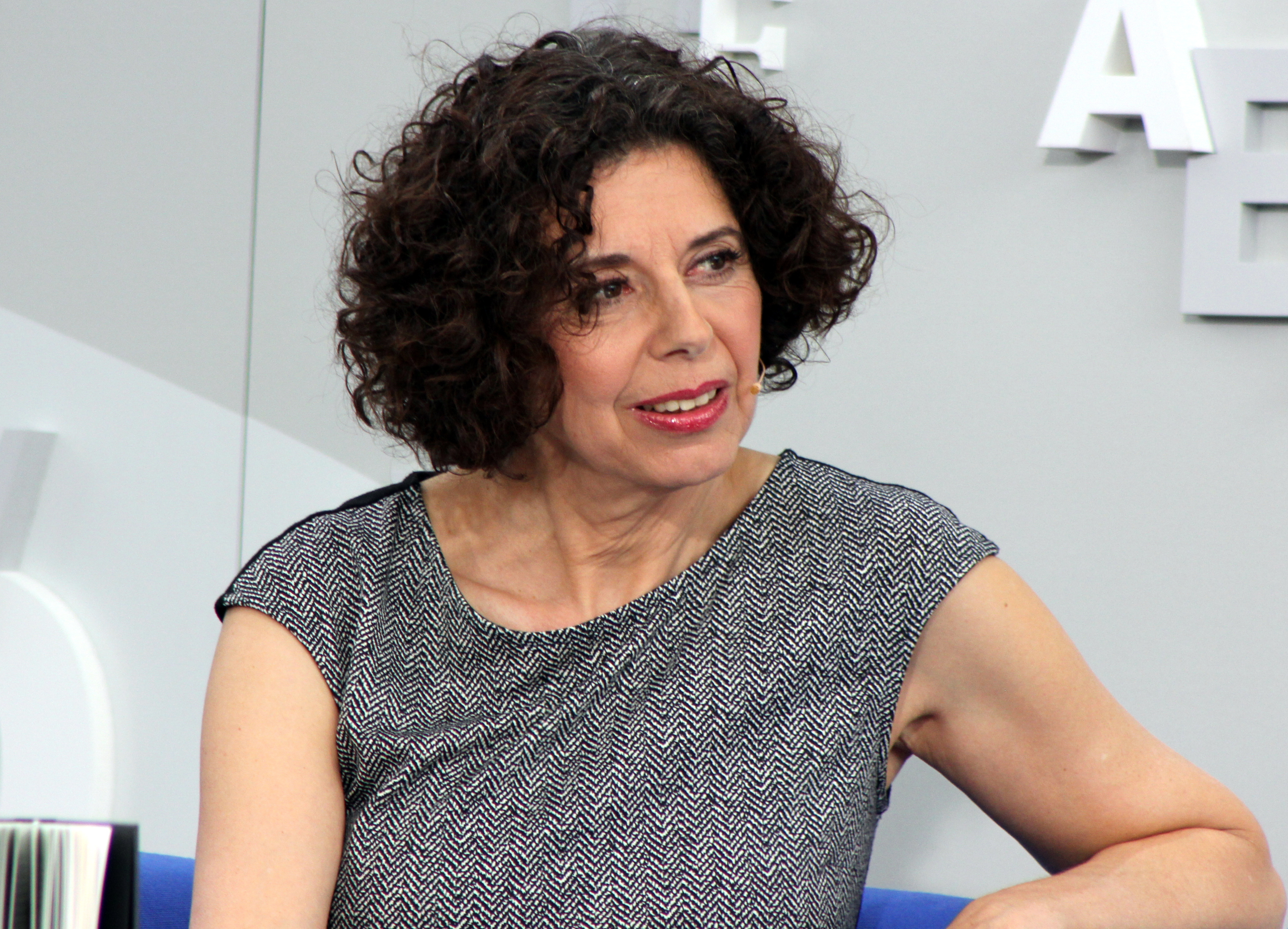 Esther Dischereit at Leipzig book fair 2014